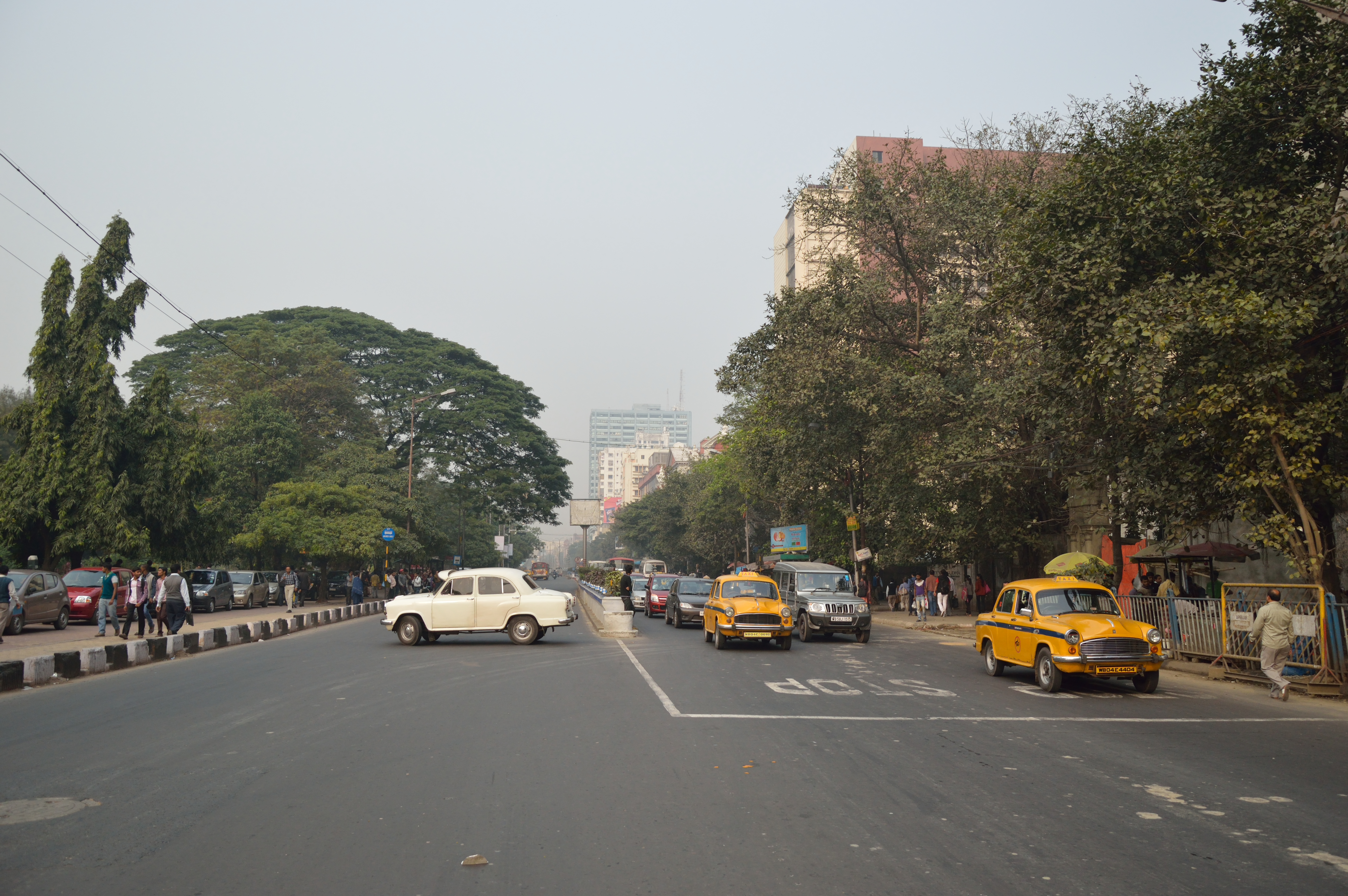 Photographed in Kolkata.